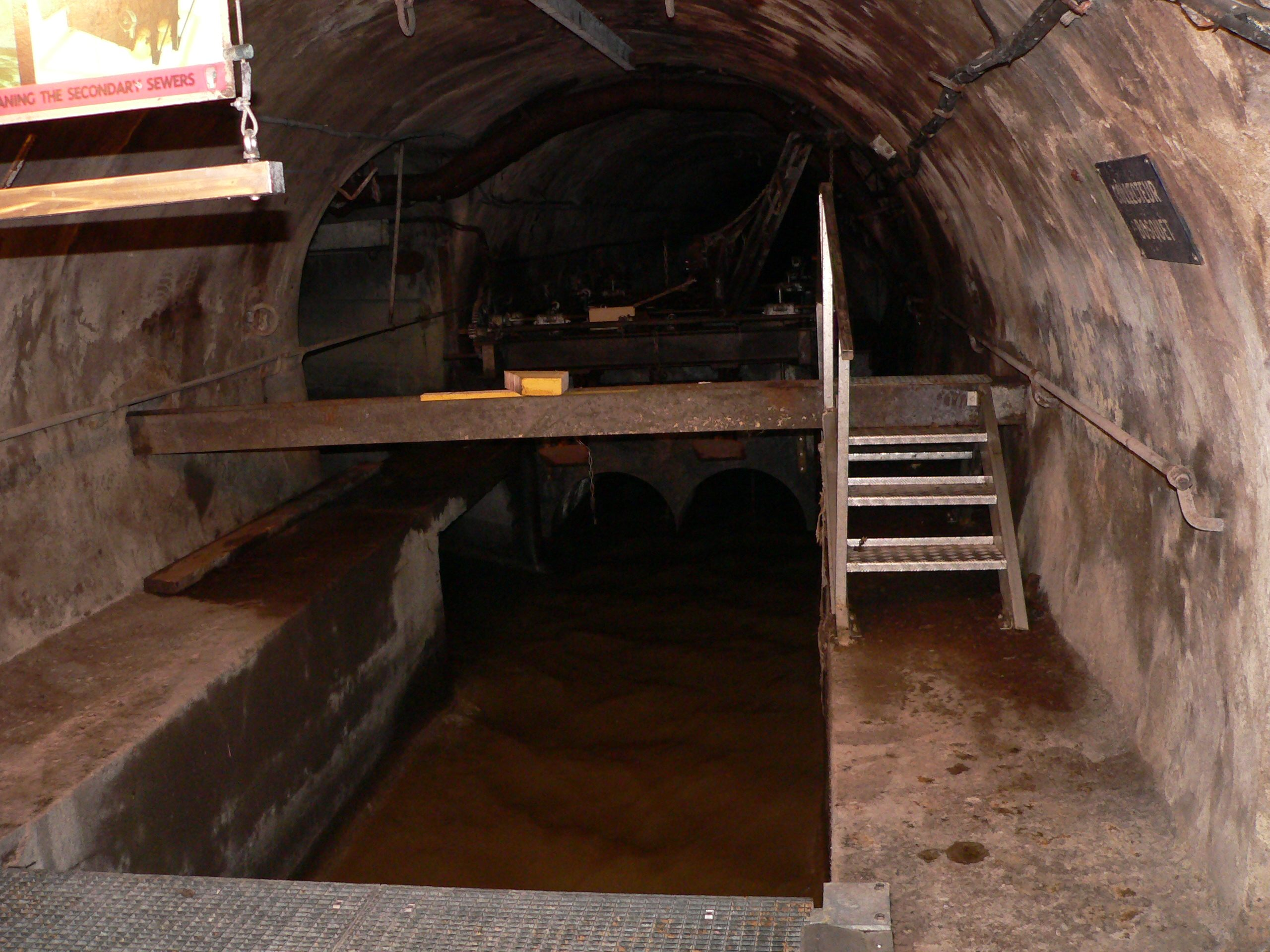 Sewers of Paris Sewers of Paris and their cleaning equipment.